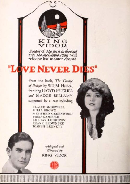 Advertisement for the American drama film Love Never Dies (1921) with Lloyd Hughes and Madge Bellamy, from the insert after page 10 of the August 27, 1921 Exhibitors Herald.